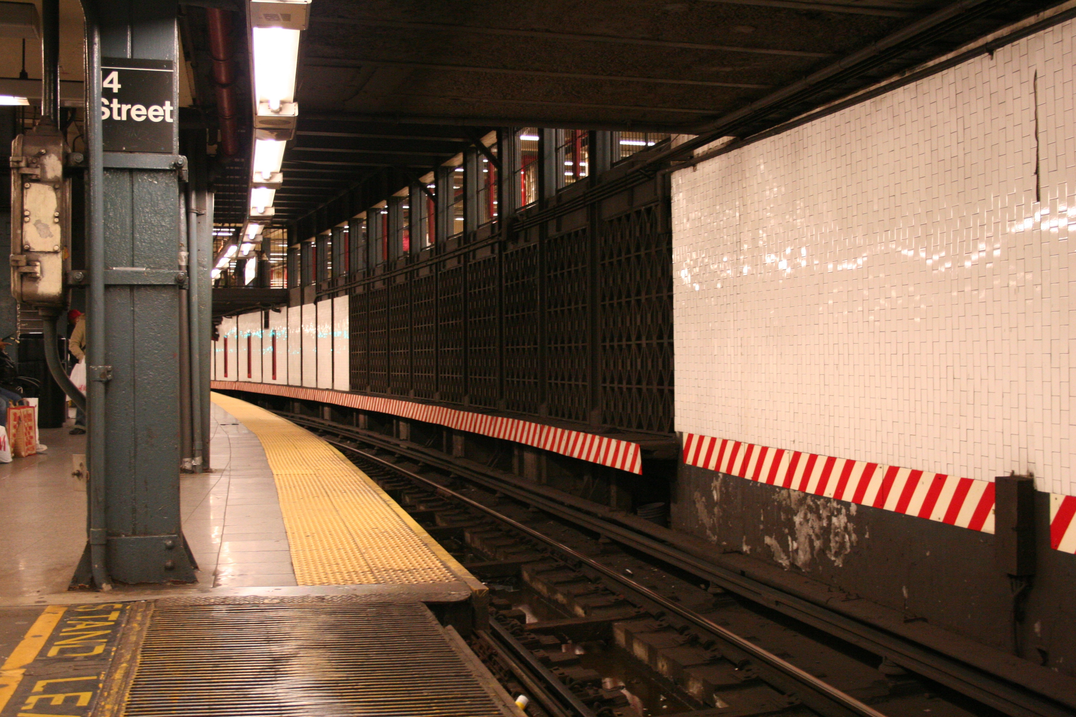 Downtown local platform of the 14th Street–Union Square station on the IRT Lexington Avenue Line.Behind the wall and the black bars on the right there is an abandoned side platform, whose edge is still visible. The mezzanine is right above. The red and white stripe indicates that there is no clearance between trains and the wall.In the foreground one can see the gap fillers that are automatically operated via proximity sensors. The writing on the floor says “Stand (C)le(ar)”.